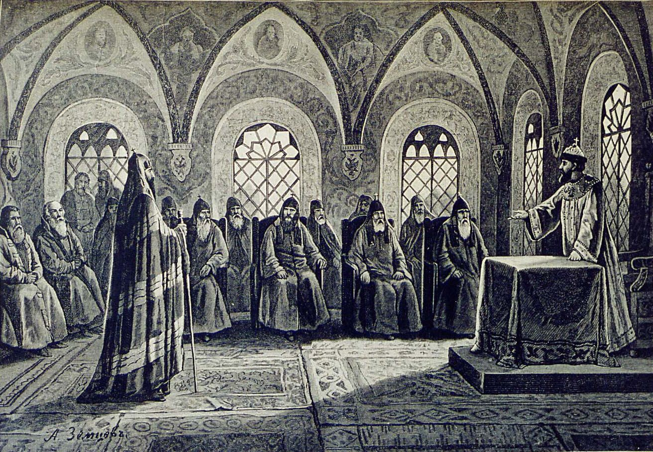 Tsar Alexey Mihajlovich and patriarch Nikon on court